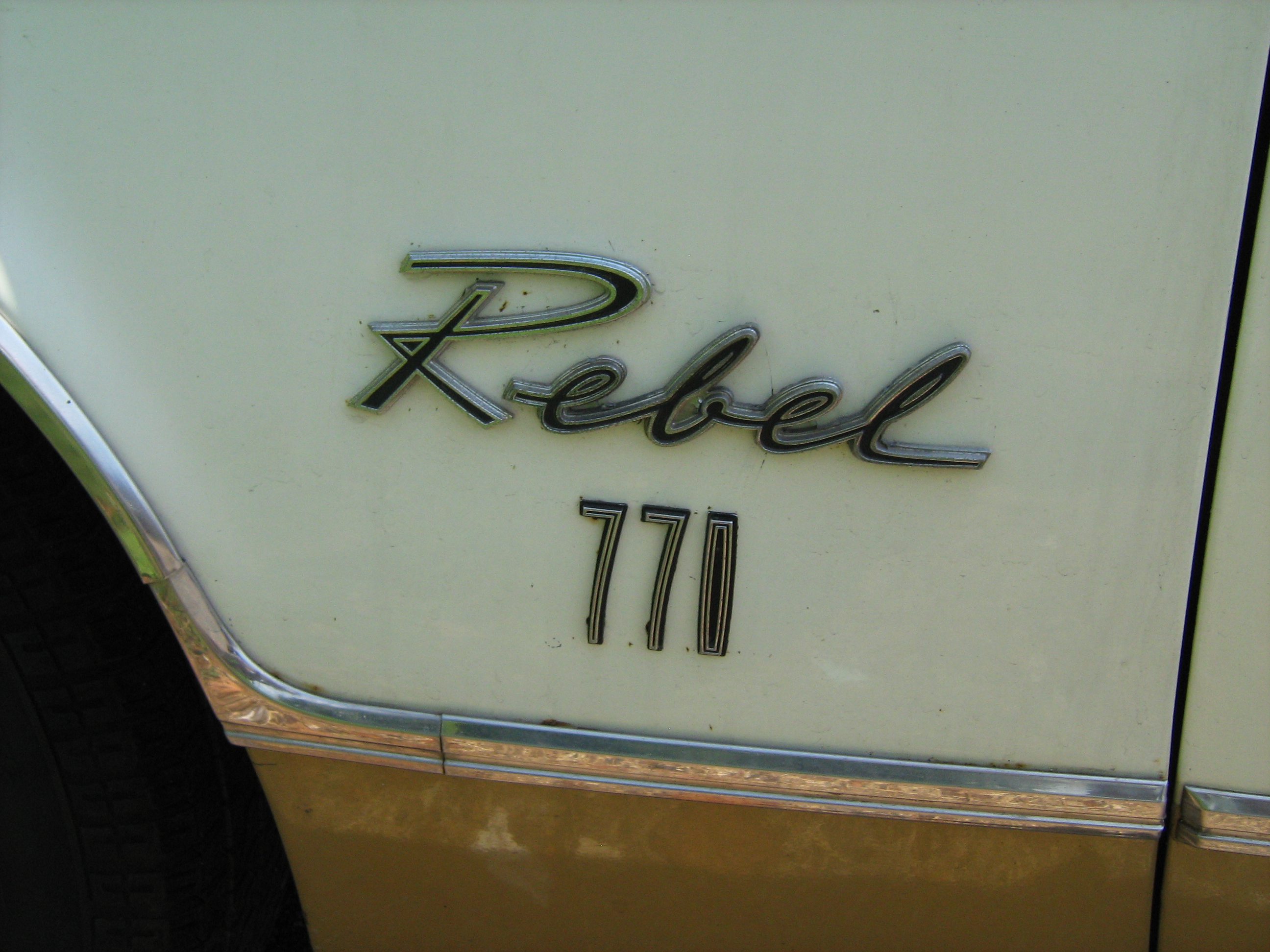 Detail of the "Rebel 770" emblems on lower front fender of the mid-sized 1968 AMC "Cross Country" station wagon by American Motors Corporation (AMC). Picture taken at the Cecil County Dragstrip in Maryland.